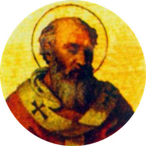 Portait of Pope Symmachus in the Basilica of Saint Paul Outside the Walls, Rome